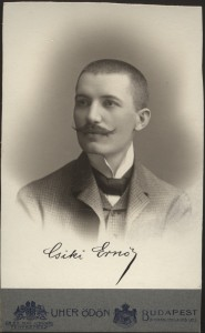 Erno Csiki